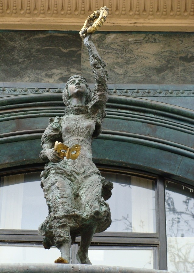 Allegorical figure (sculpture building)